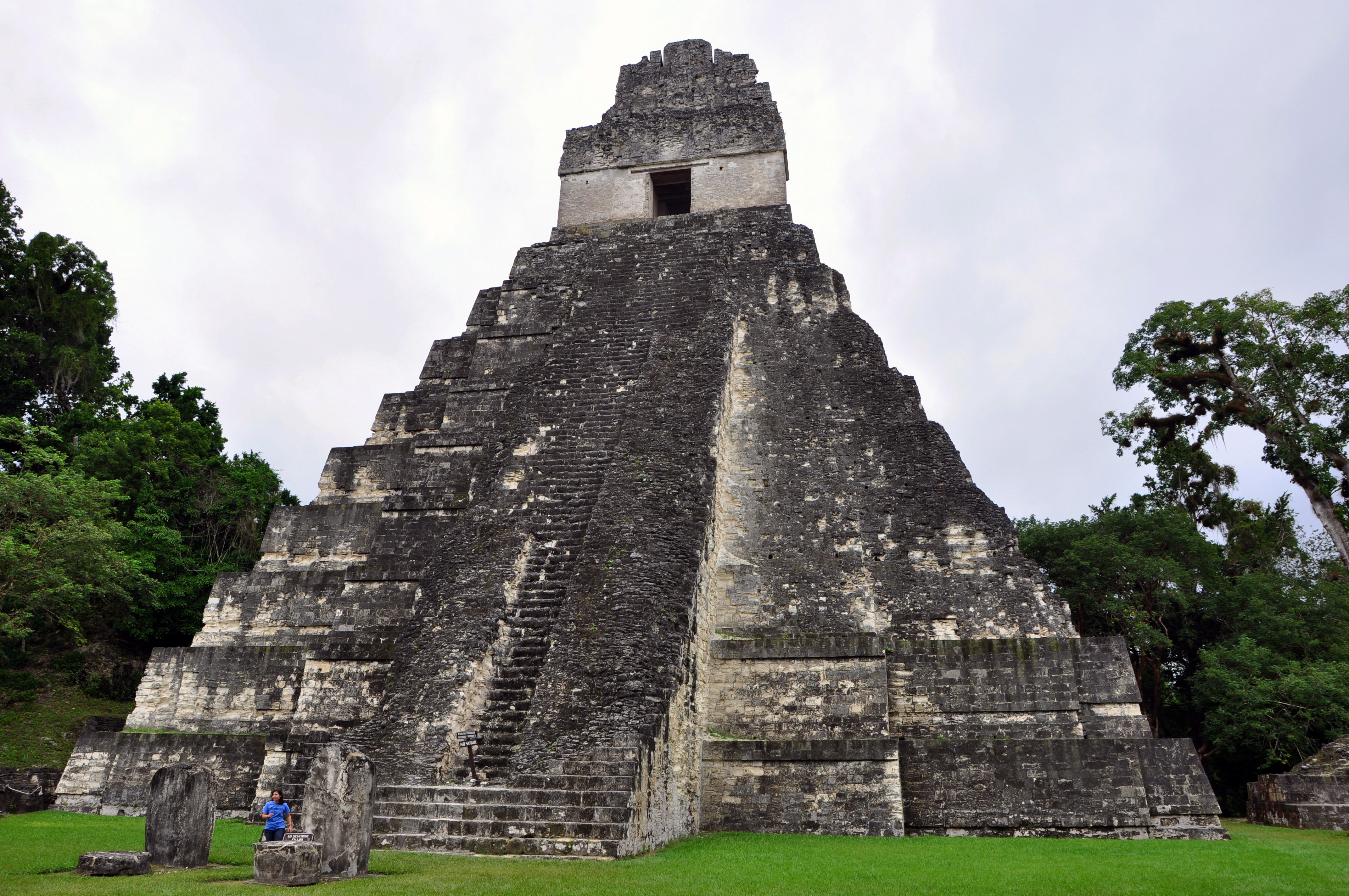 Tikal Temple 1 Mayan ruins 2009 Guatemala